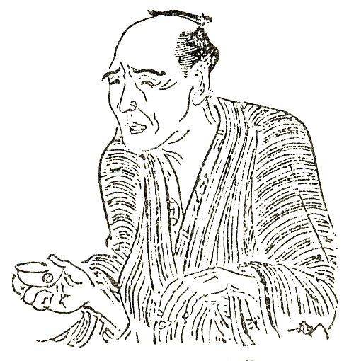 Jippensha Ikku (十返舎 一九, Jippensha Ikku? 1765 – 1831) was a Japanese writer in the late Edo period.This Picture was carried on the book of the name, " the imperial biographic dictionary （帝国人名辞典）".This book was published in 1907.